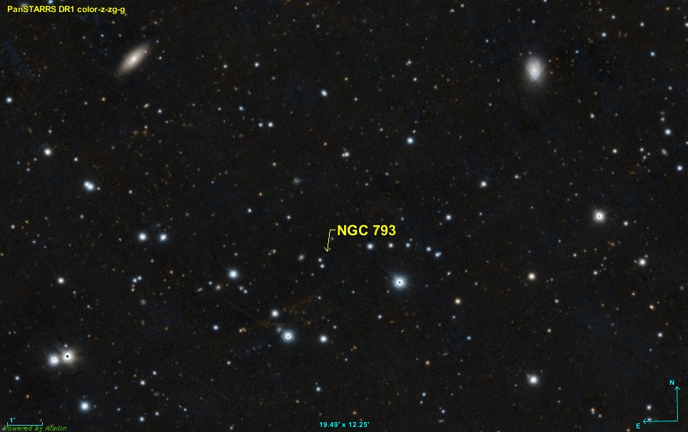 Image created using the Aladin Sky Atlas software from the Strasbourg Astronomical Data Center and Pan-STARRS ([ Panoramic Survey Telescope And Rapid Response System) public data